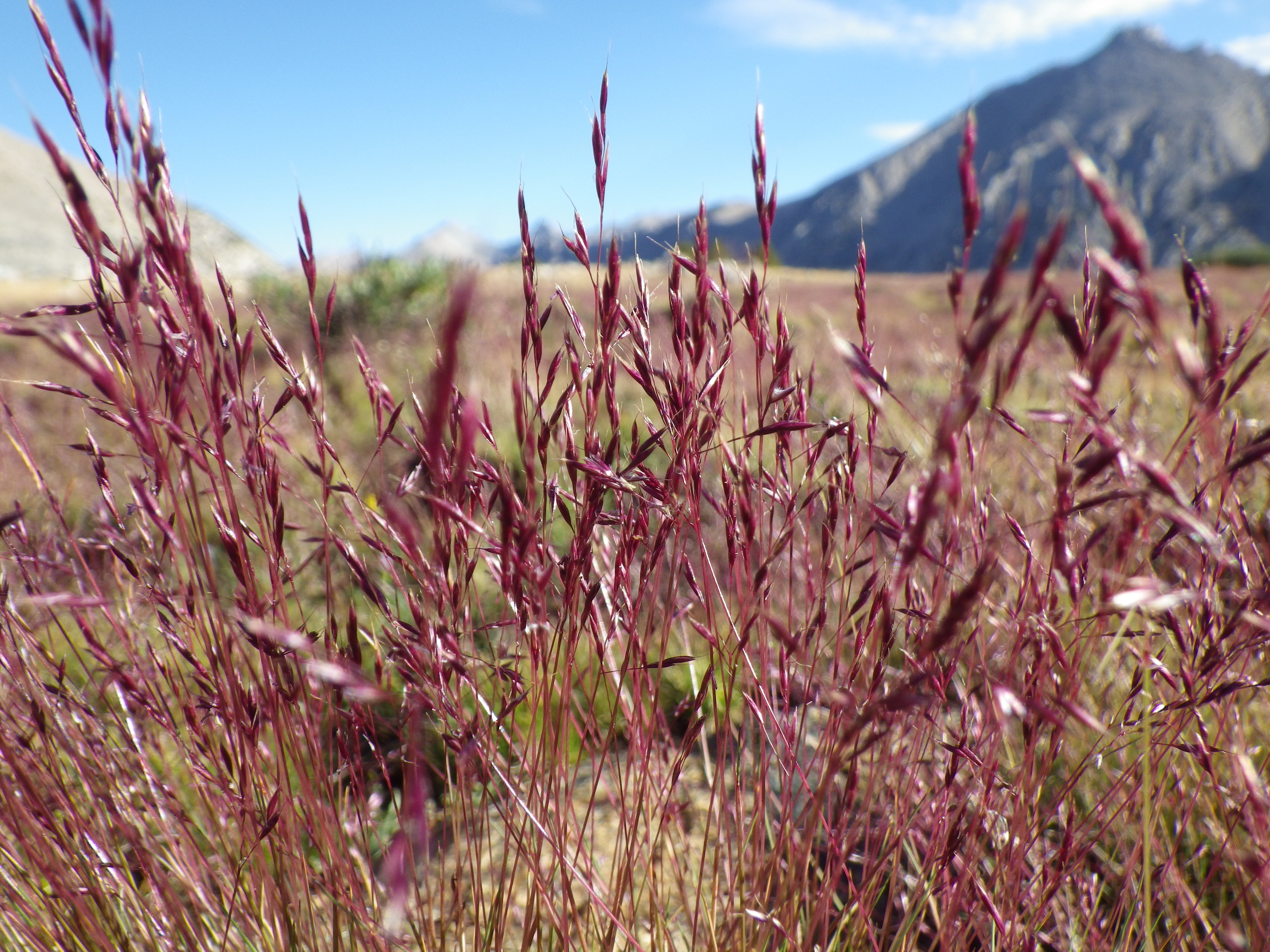 This is one of the most common and conspicuous grasses in the southern Sierra Nevada along the John Muir Trail from the region of Bishop Pass south to the Mount Whitney area. From the lodgepole pine zone and through the subalpine, this grass inhabits wet meadows even if only seasonlly wet.